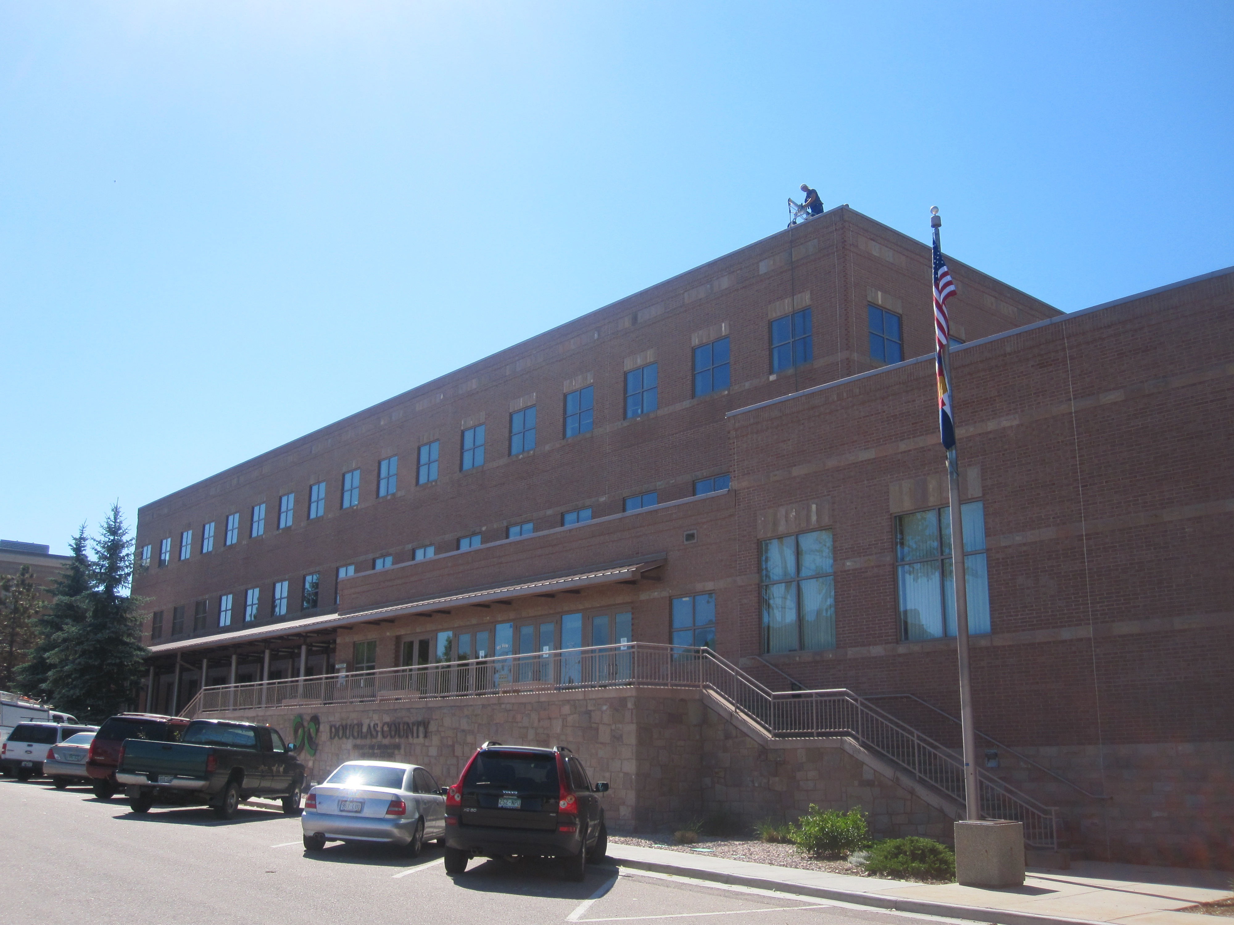 I took photo with Canon camera in Castle Rock, CO.